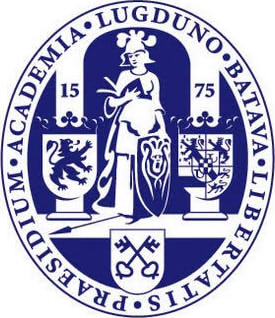 Seal of Leiden University 2015